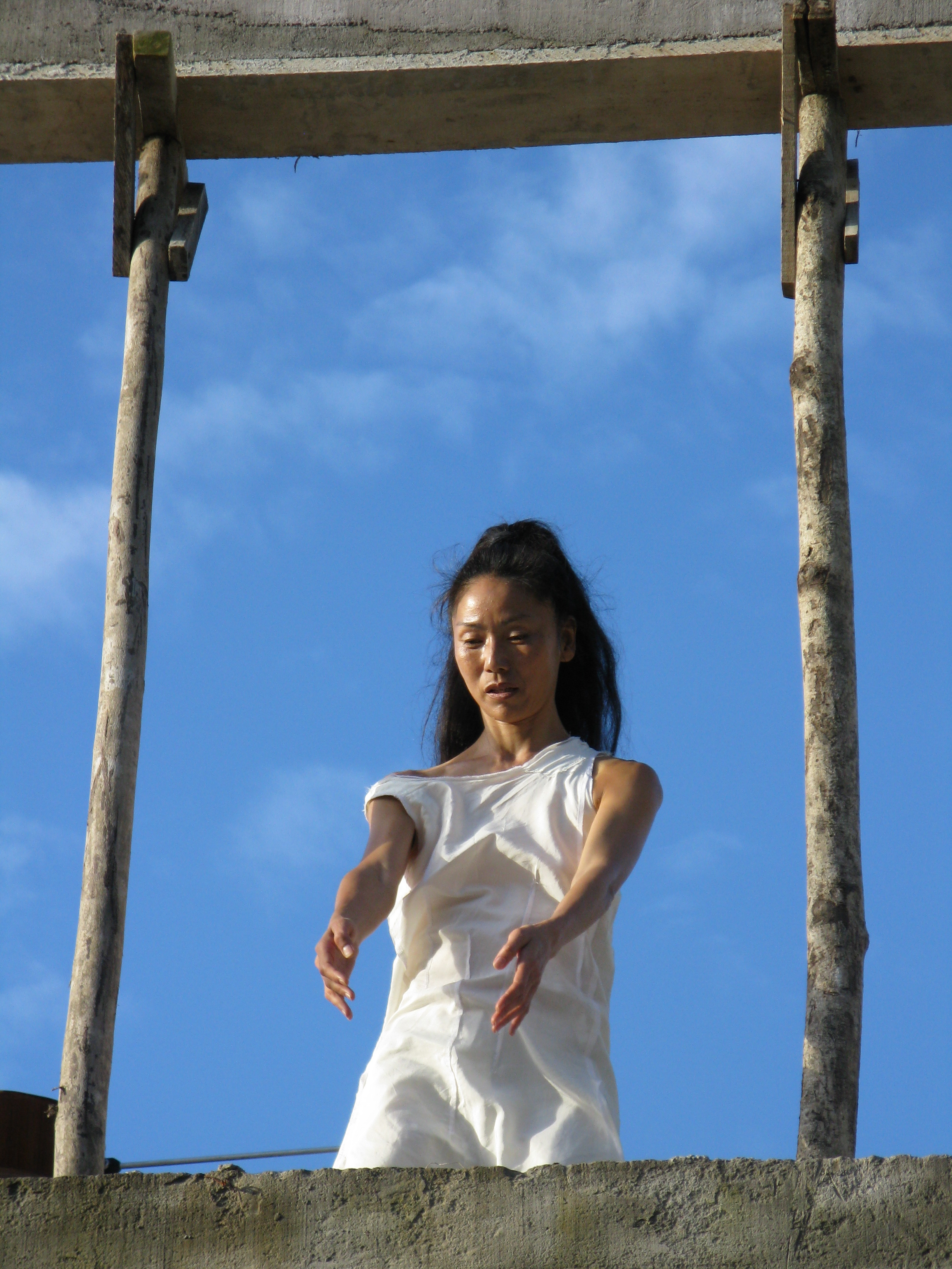 Minako Seki in a butoh's seminary from Coroico, Bolivia. February 2008.